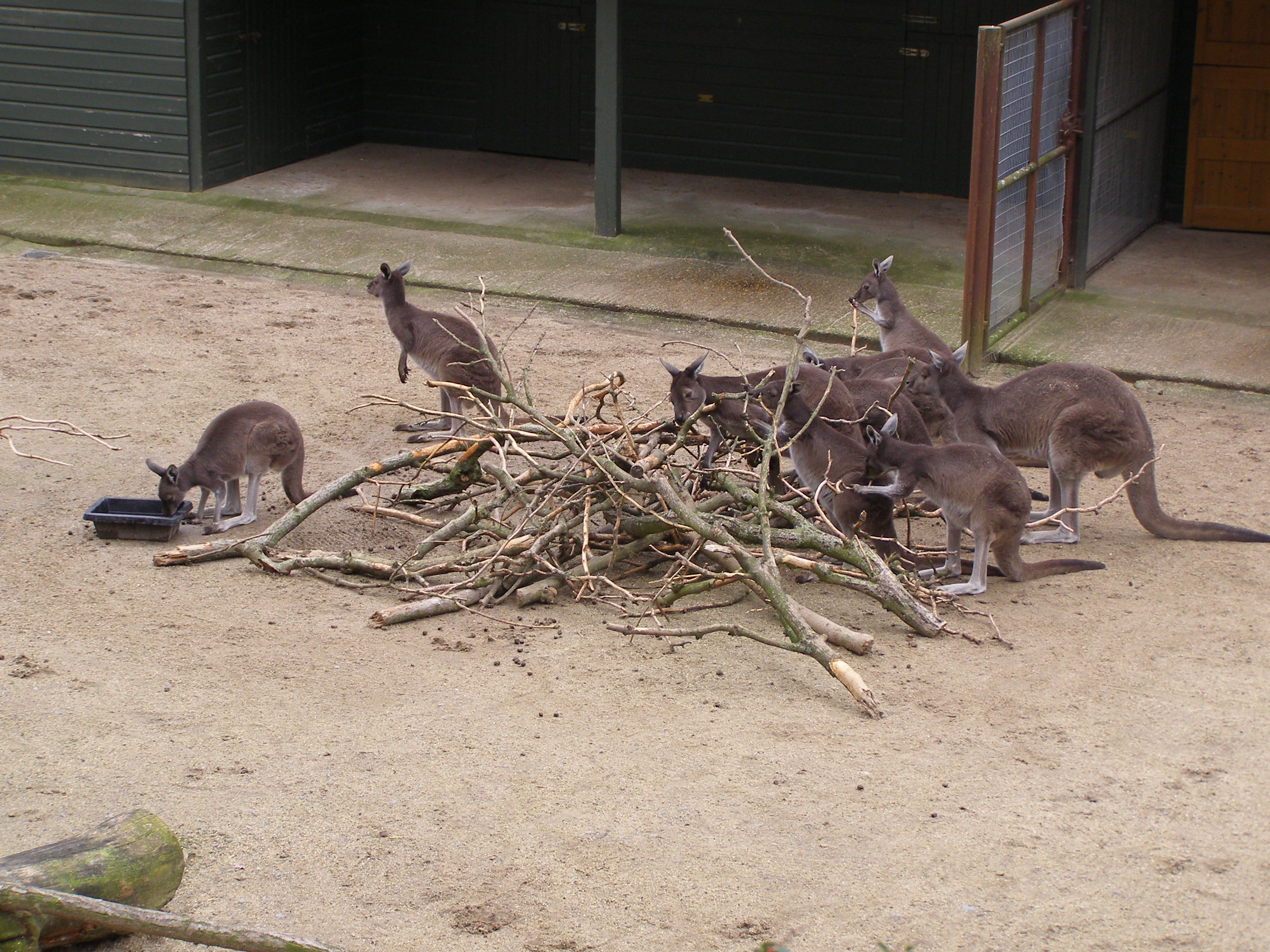 Western Gray Kangaroo at Marwell Zoo, England